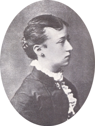 Elzira Dantas (1865-1942), while the fiancée of Bernardino Machado (future President of the Portuguese Republic).